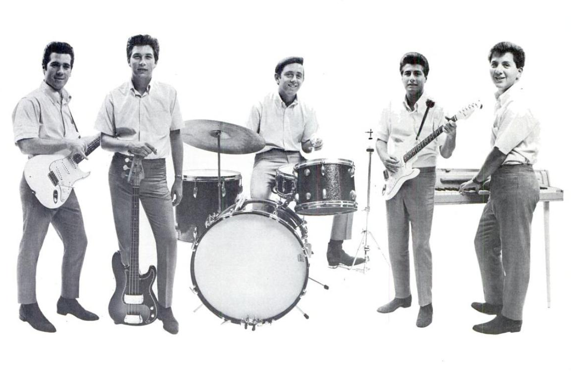 Trade ad for The Sunrays's single "I Live For The Sun".To better adapt it to his respective Wikipedia article, the ad was cropped and cleaned in a graphics editing program. The original can be viewed at the source below.